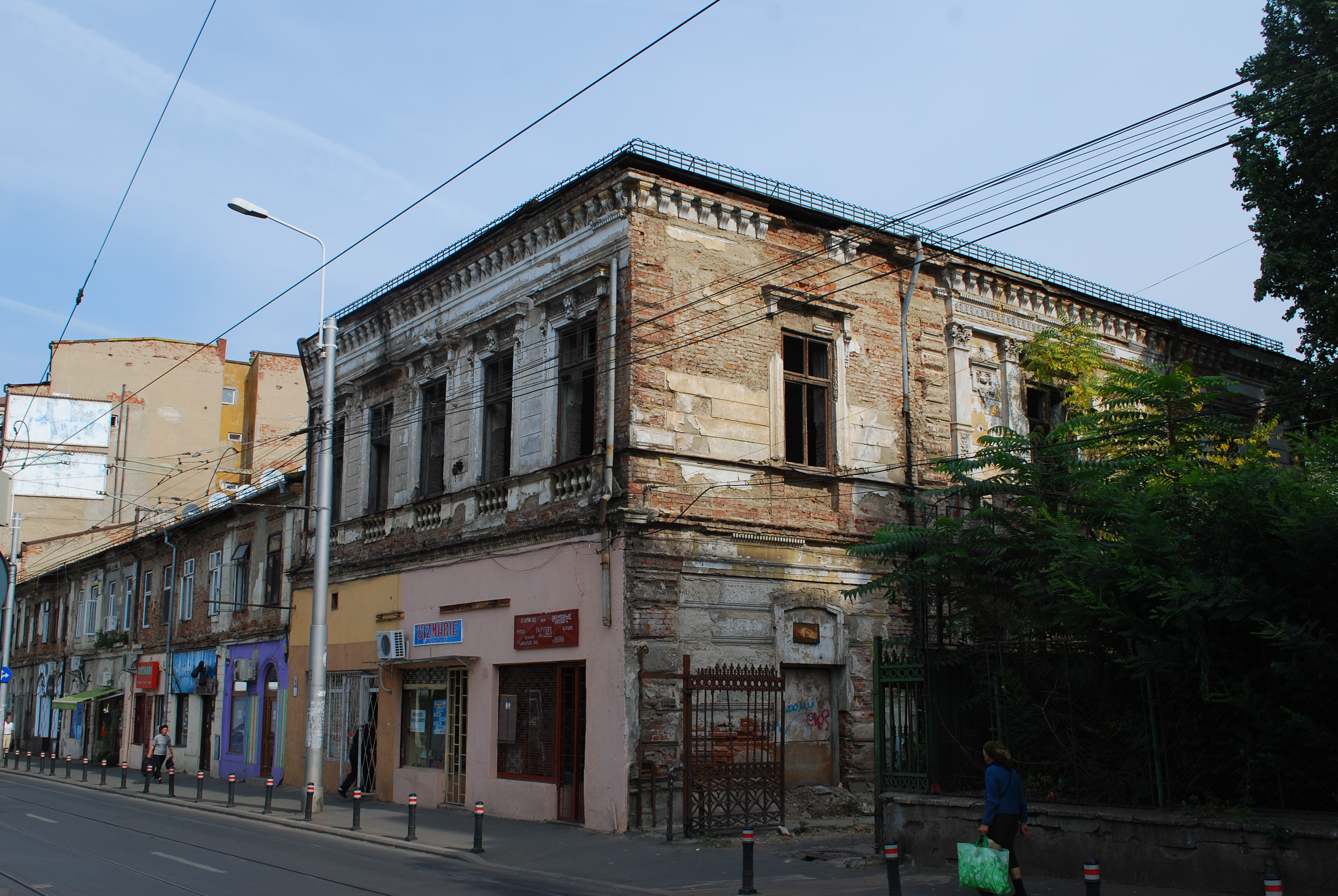 Historic buildings in Bucharest, Romania, on Calea Mosilor 82